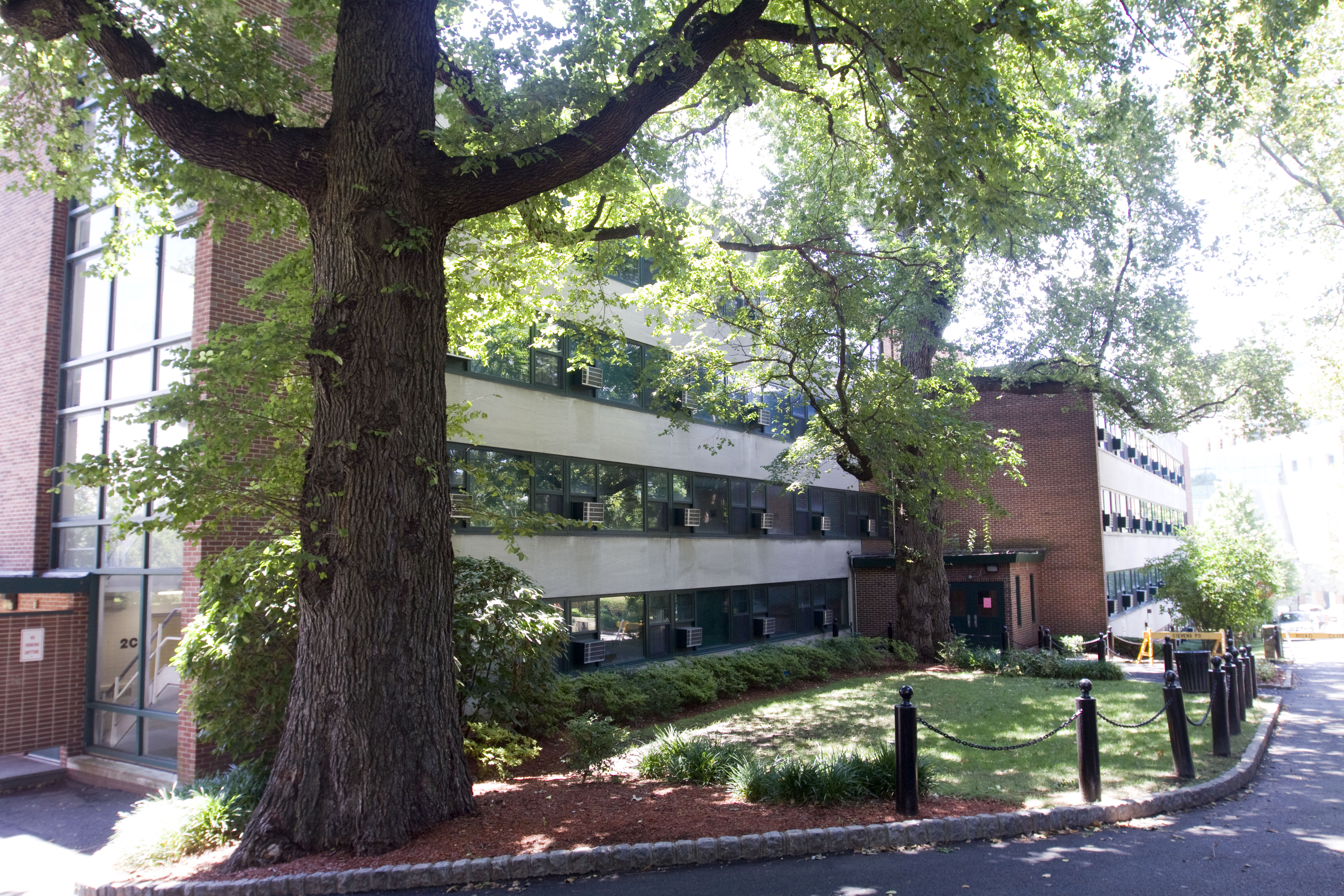 Harvey N. Davis Hall on the campus of Stevens Institute of Technology in Hoboken, New Jersey, USA